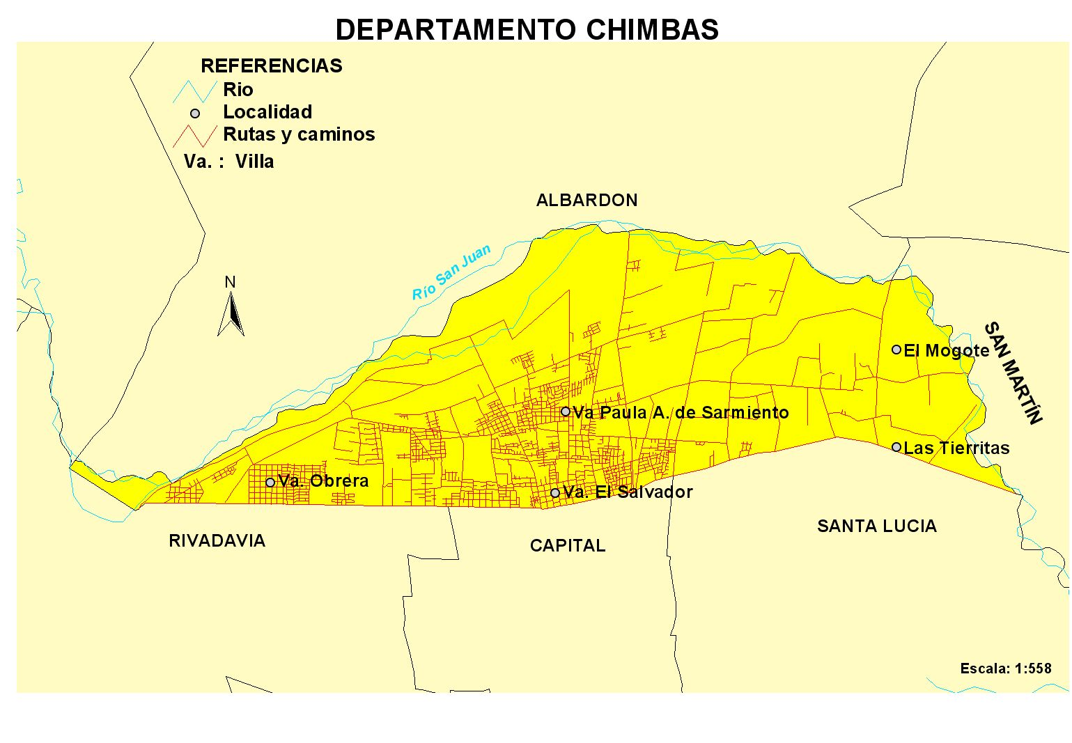 Maps of Chimbas Department, San Juan Province, Argentina